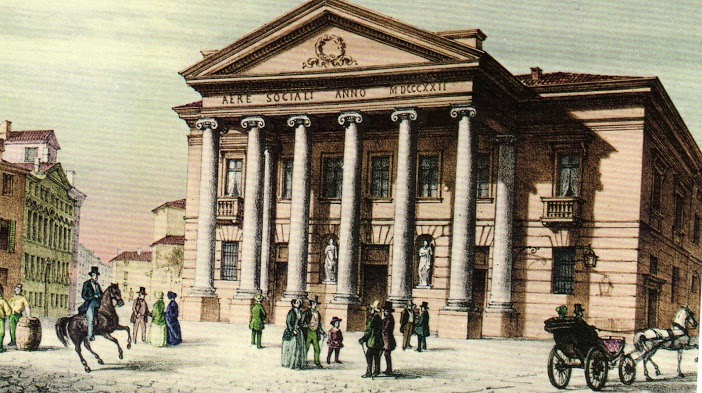 Historical painting of the Teatro Sociale di Mantova